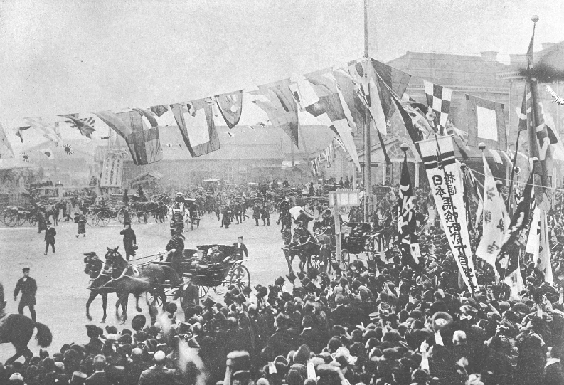 Tougou and kamimura return in triumph